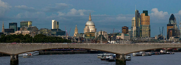 City of London skyline in 2012